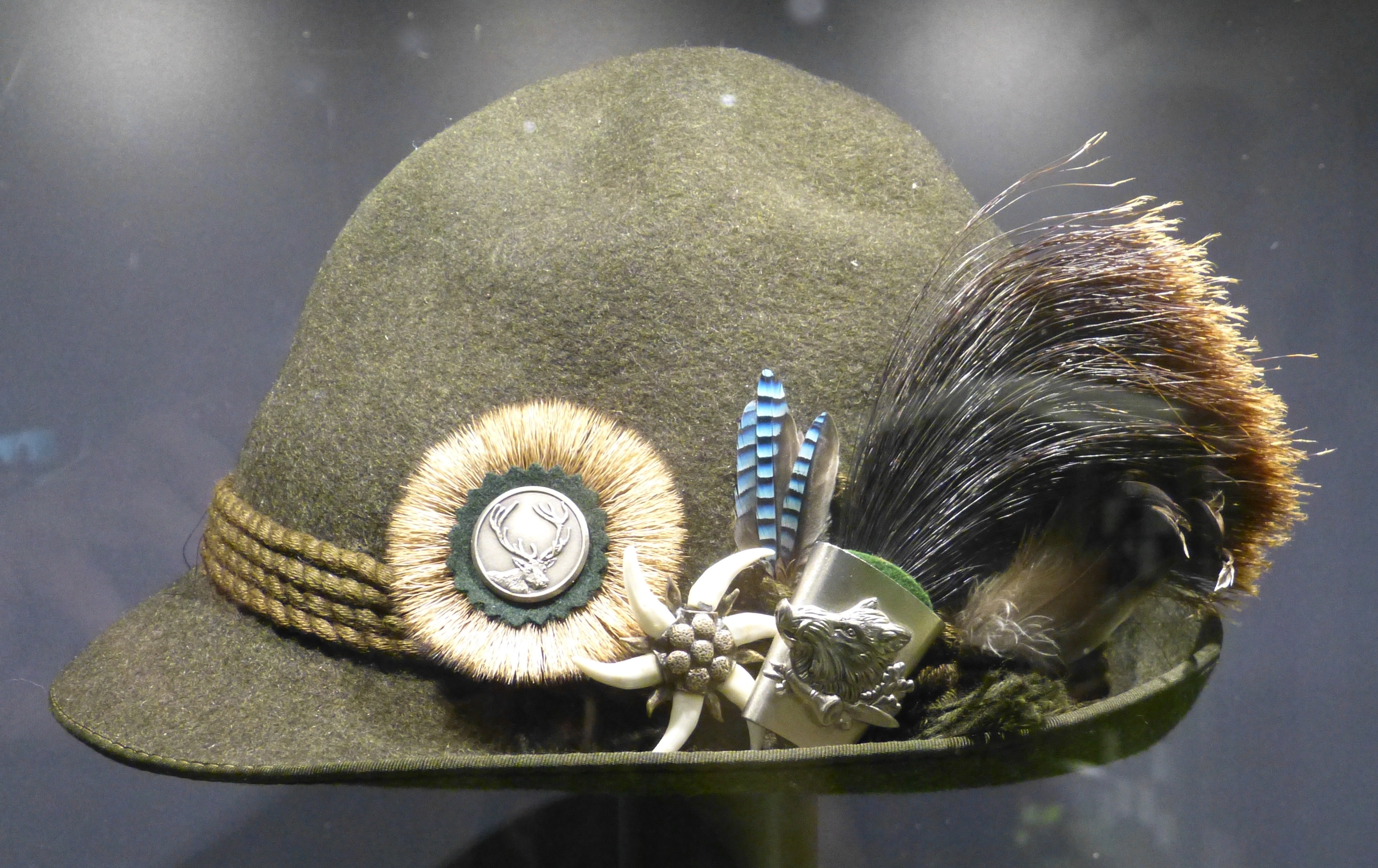 Freyung ( Lower Bavaria ). Wolfstein castle - Hunting museum: Hunter's hat.